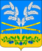 Coat of arms of Petrovskaya, Krasnodar Krai, Russia